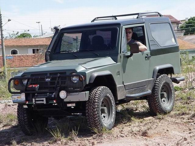 Utilitary JPX Montez.